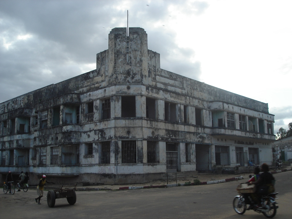 Former Hotel des Chutes, in ruins near the Congo River rapids, in Kisangani, Democratic Republic of the Congo.